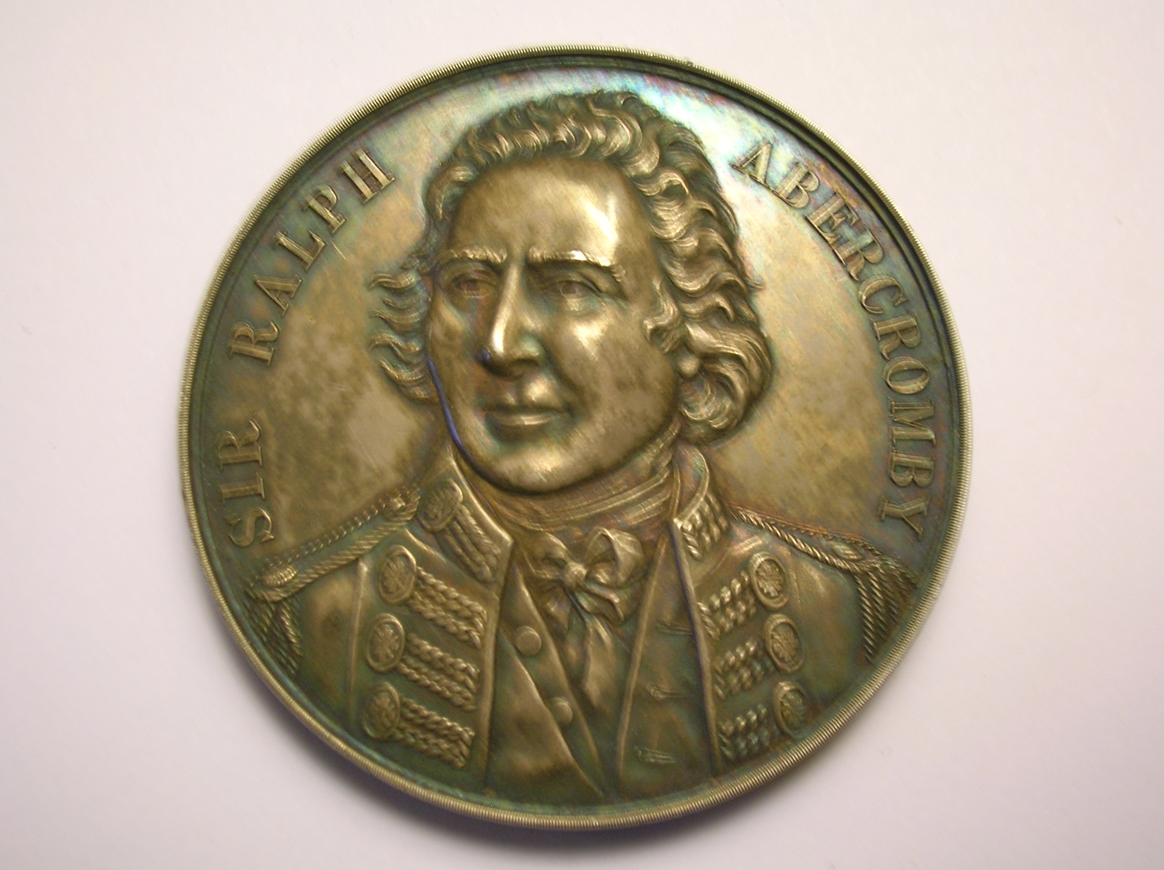 A medallion commemorating the capture of Trinidad and Tobago by Sir Ralp Abercromby in 1797